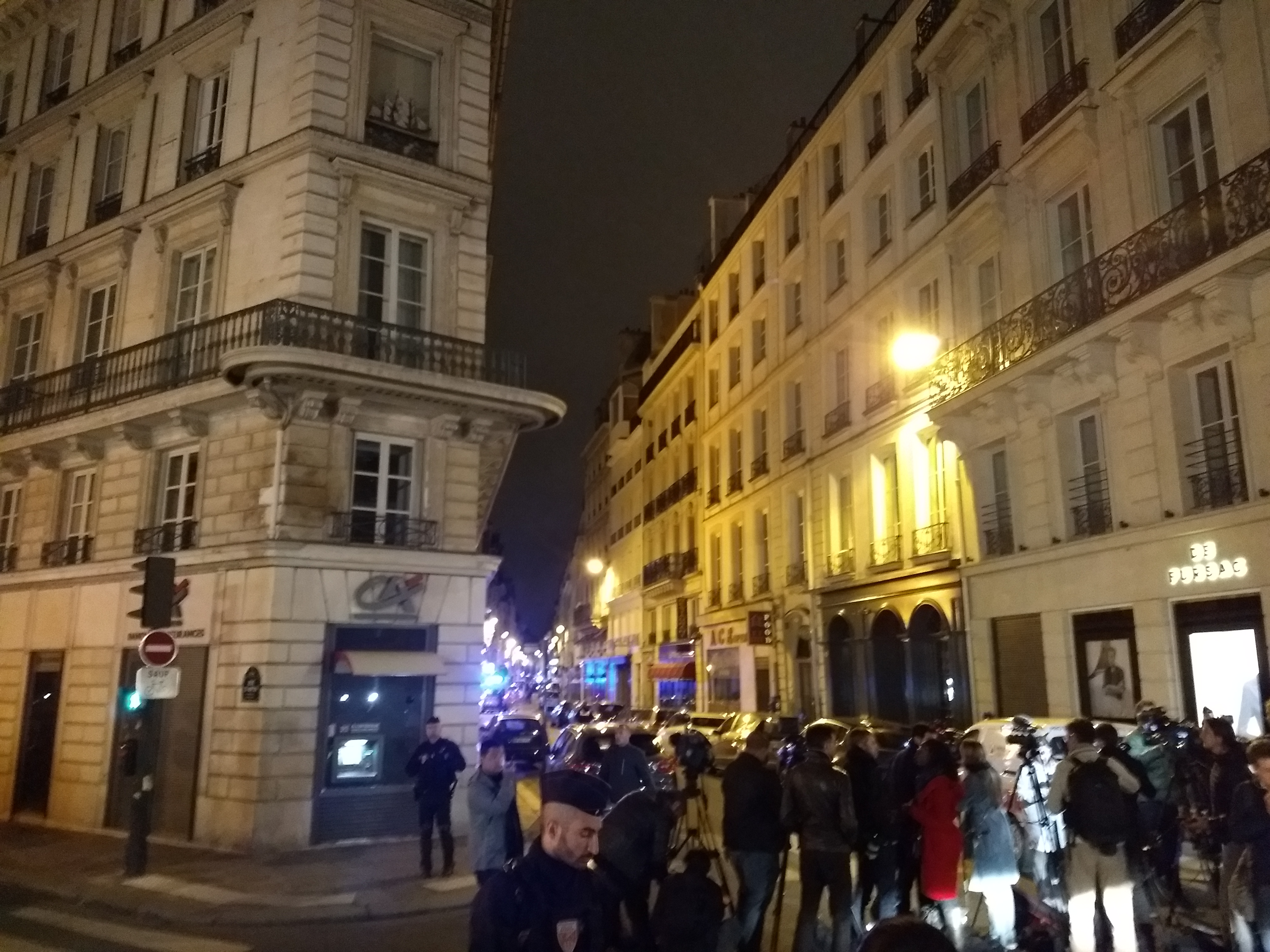 Photo taken in front of 34 Avenue de l'Opéra, 75002 Paris. Police cordon off the area after the 2018 Paris knife attack.